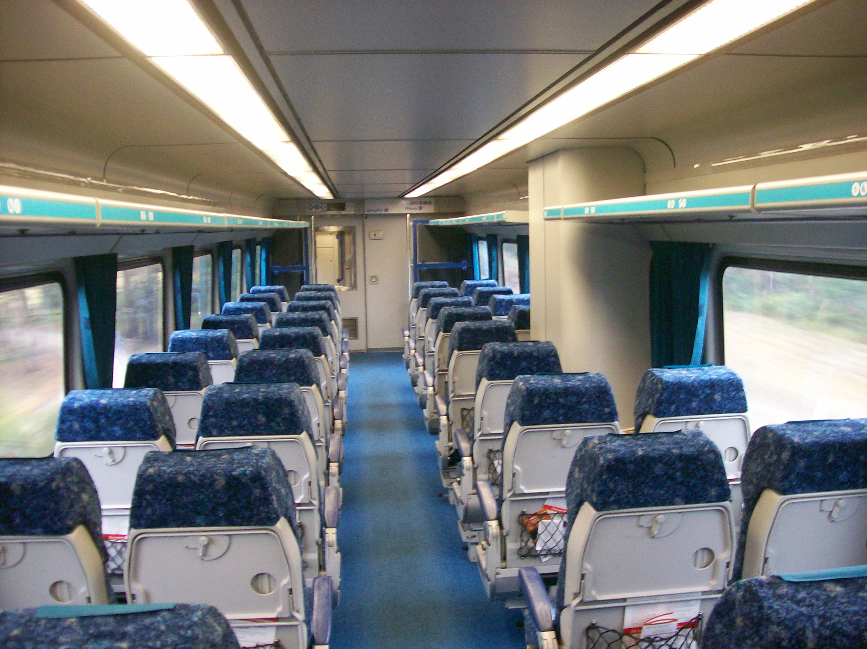 Countrylink Xplorer Economy Carriage